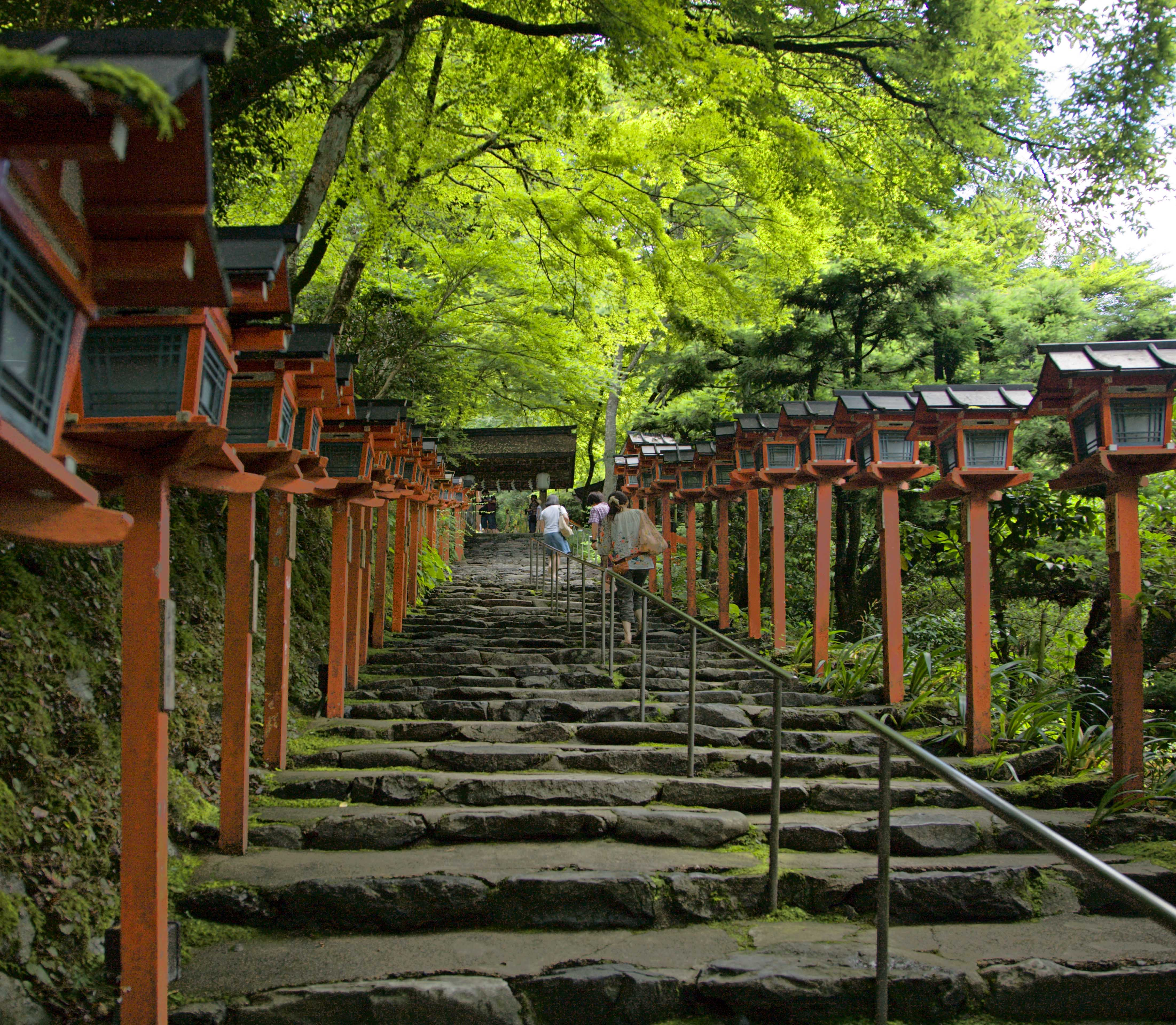 Steps going up to the shrine Needs additional description